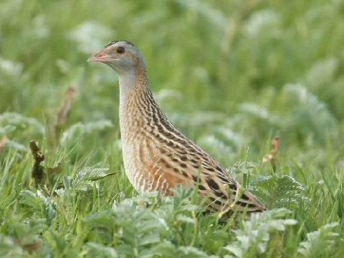 Corncrake (Crex crex)